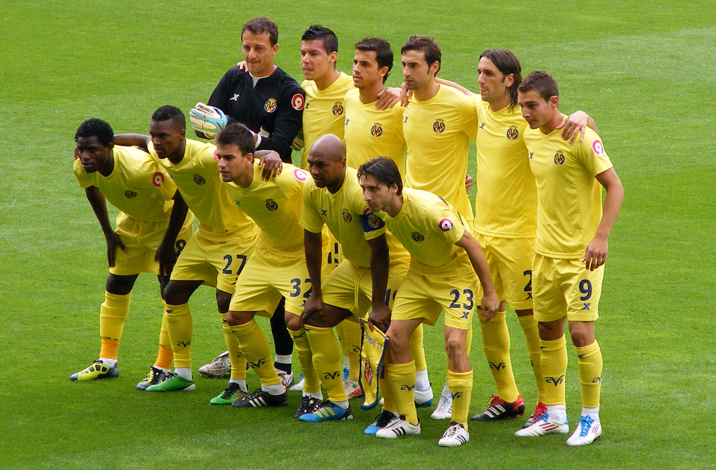 Villarreal starting XI posing before a peseason match at Wigan Athletic.